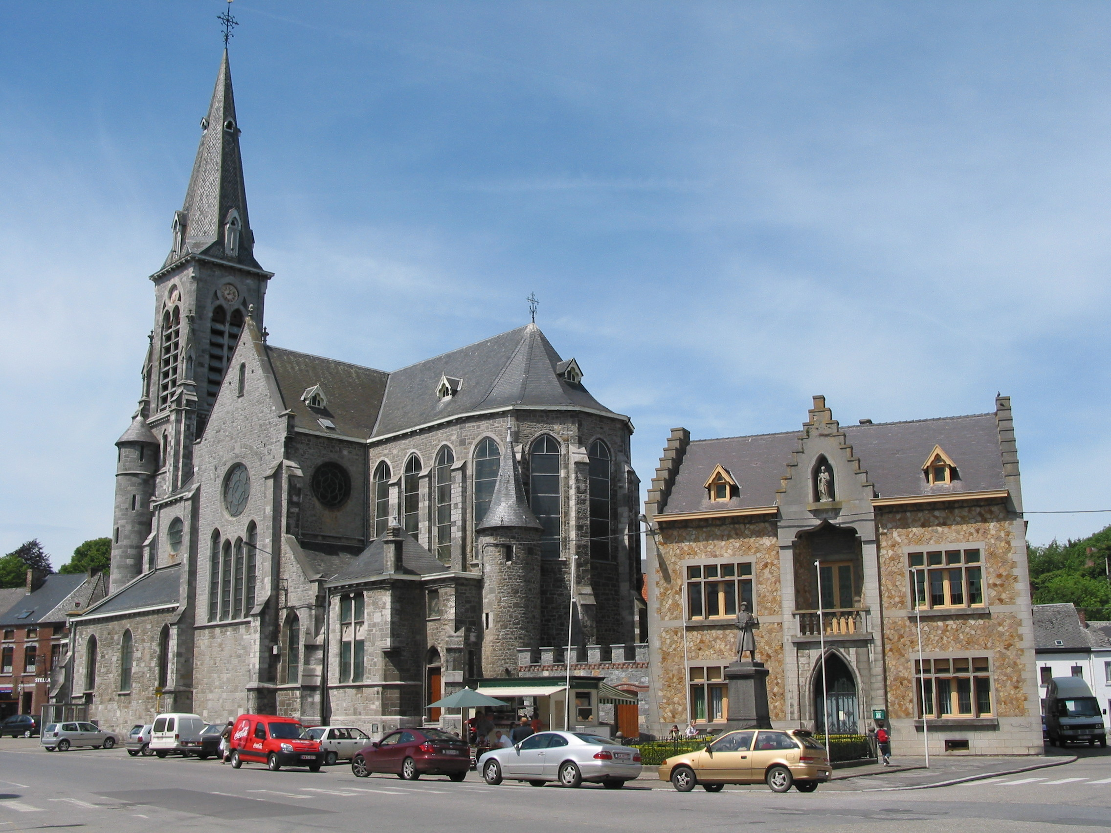 Ham-sur-Heure (Belgium), the St. Martin church (1877-1881).